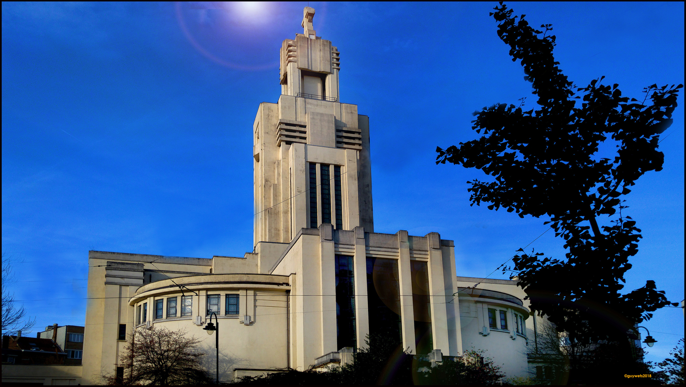 Église Saint-Augustin construite en beton armé,1935(Forest-Bruxelles)